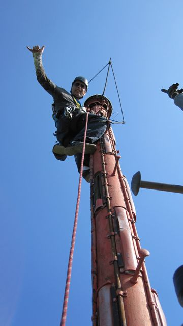 Base Painters tech climbing the analog antenna of Kentucky Educational Television's tower (WKAS?) in Ashland, Kentucky